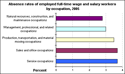 Absence rates and occupation 2005 for actual data input